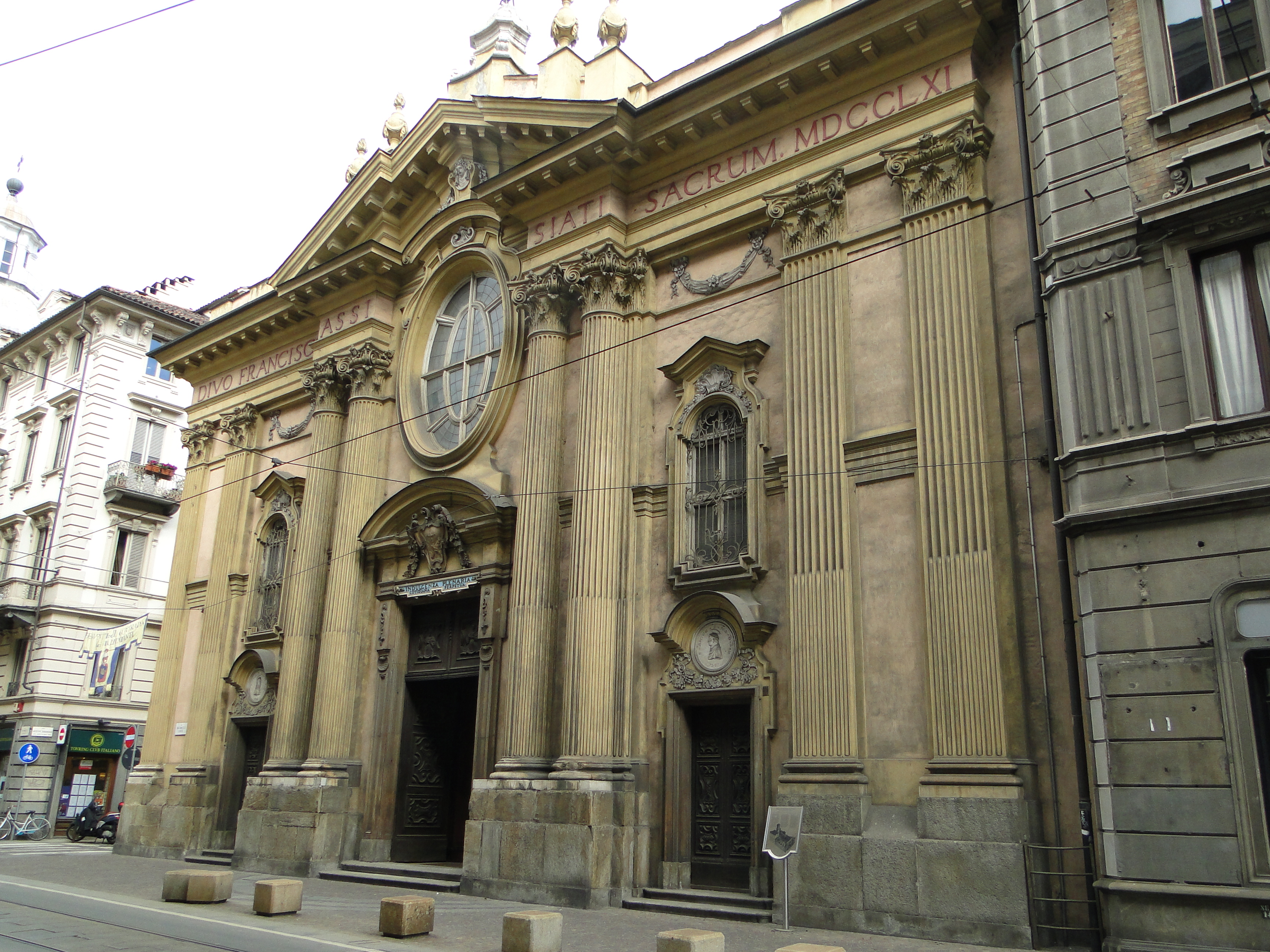 Church of St. Francis from Assisi in Turin (Italy)